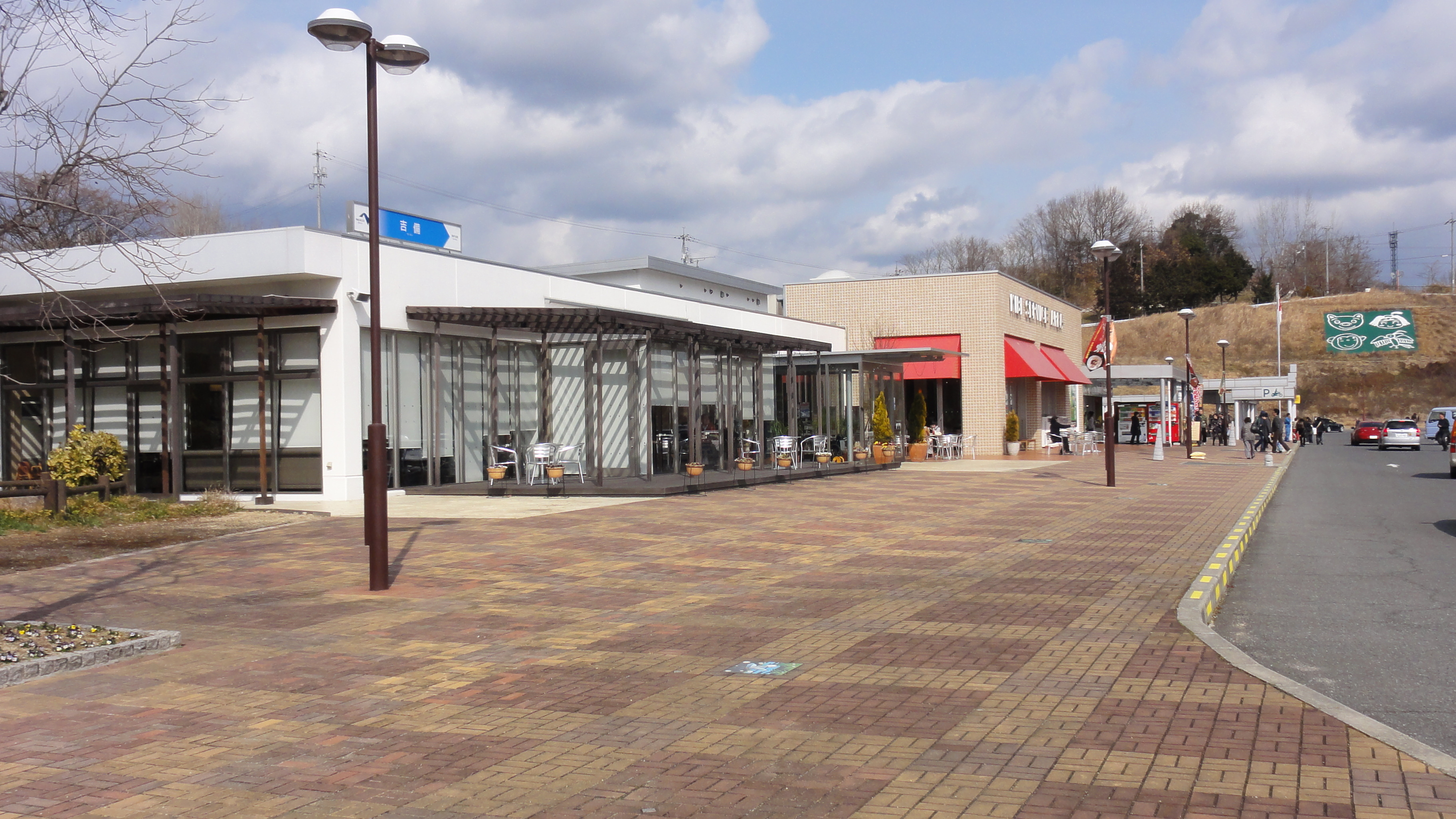 Kibi Service Area,Okayama pref..,Japan